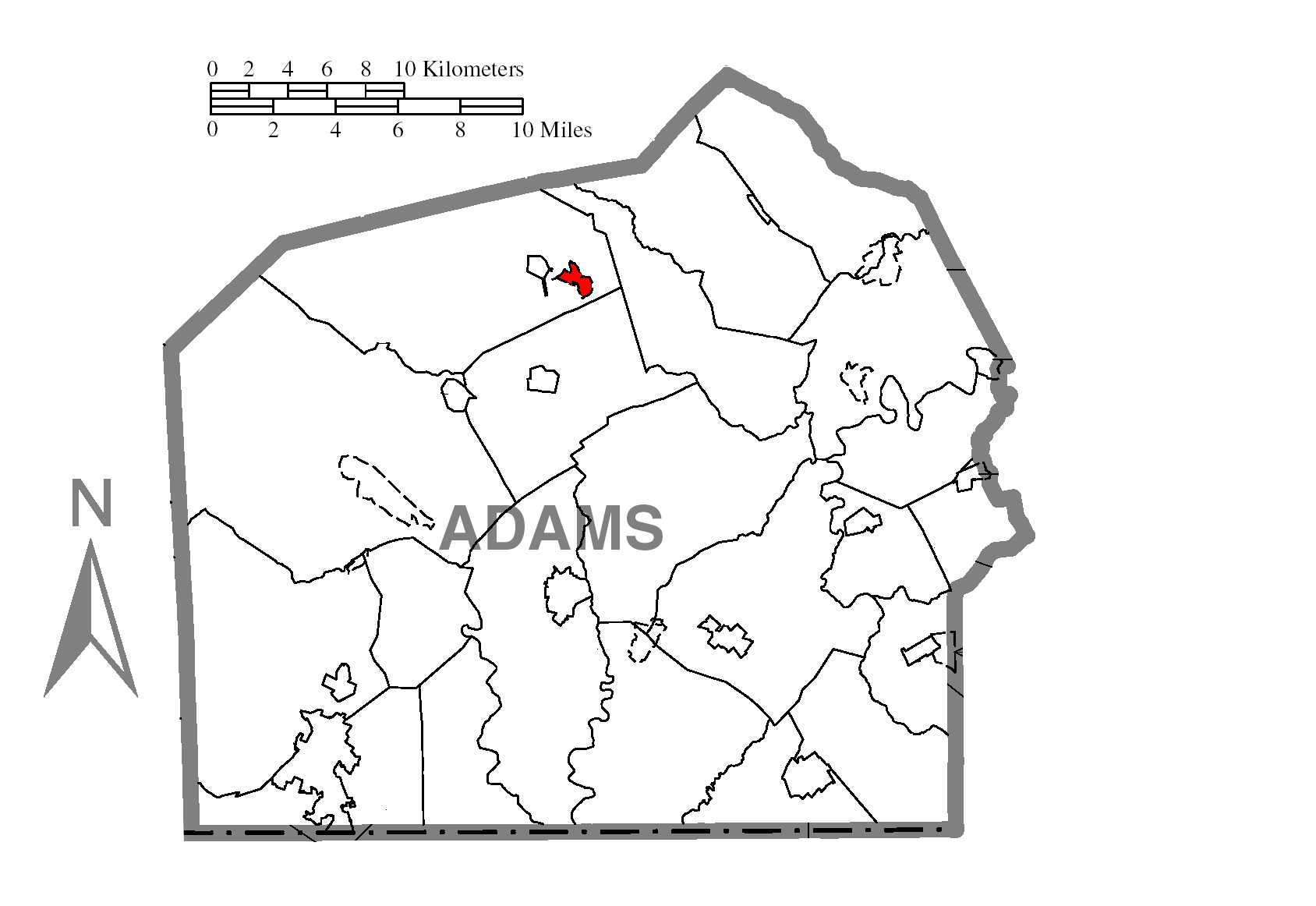 A map of Adams County showing Bendersville Station-Aspers, Pennsylvania (alternate) highlighted on the map.